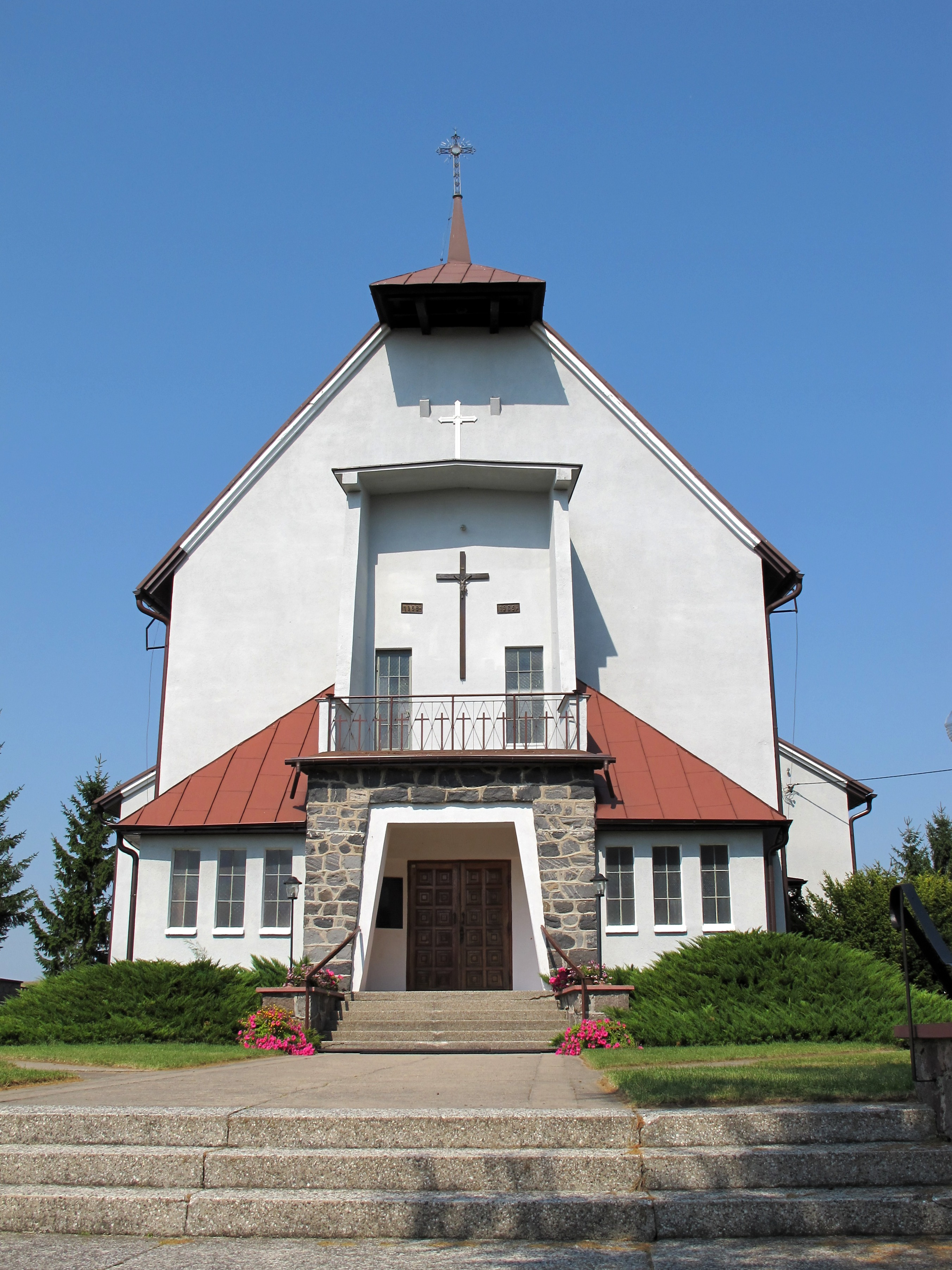 Sacred Heart of Jesus church in Bokiny, gmina Łapy, podlaskie, Poland